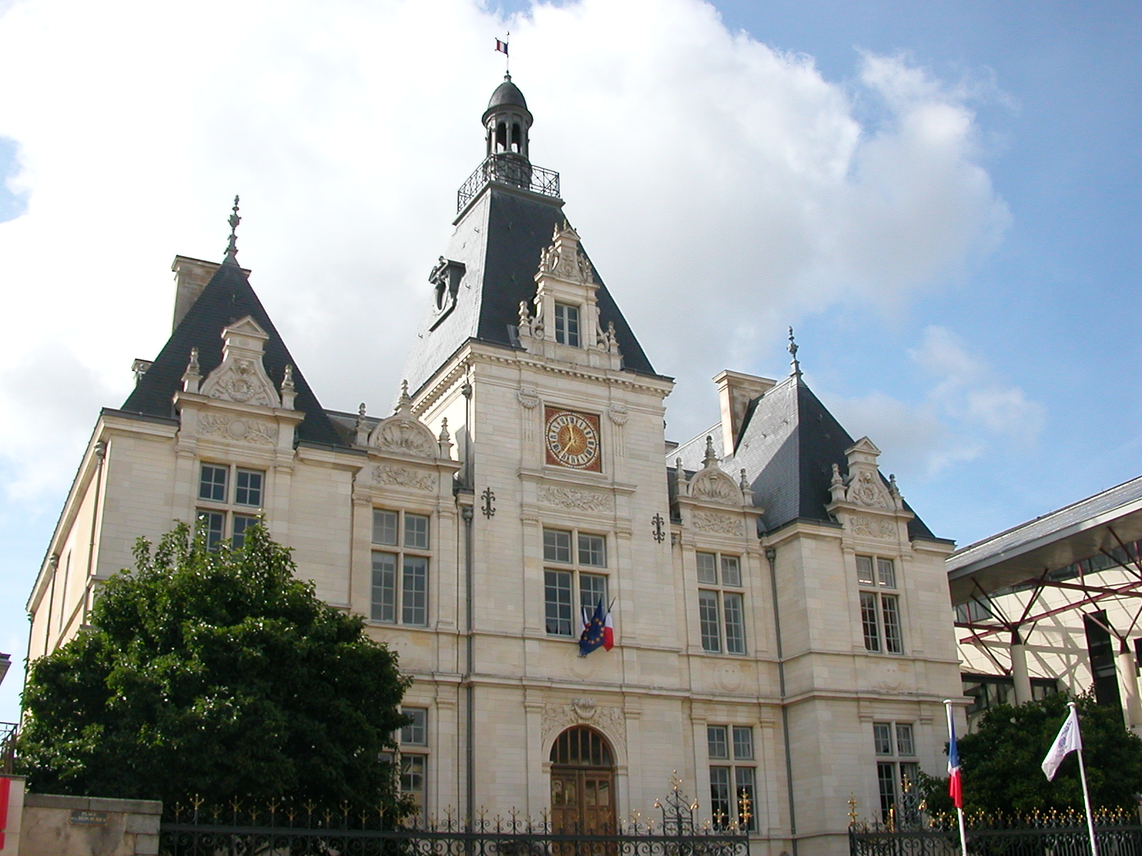 Town hall of Château-Gontier